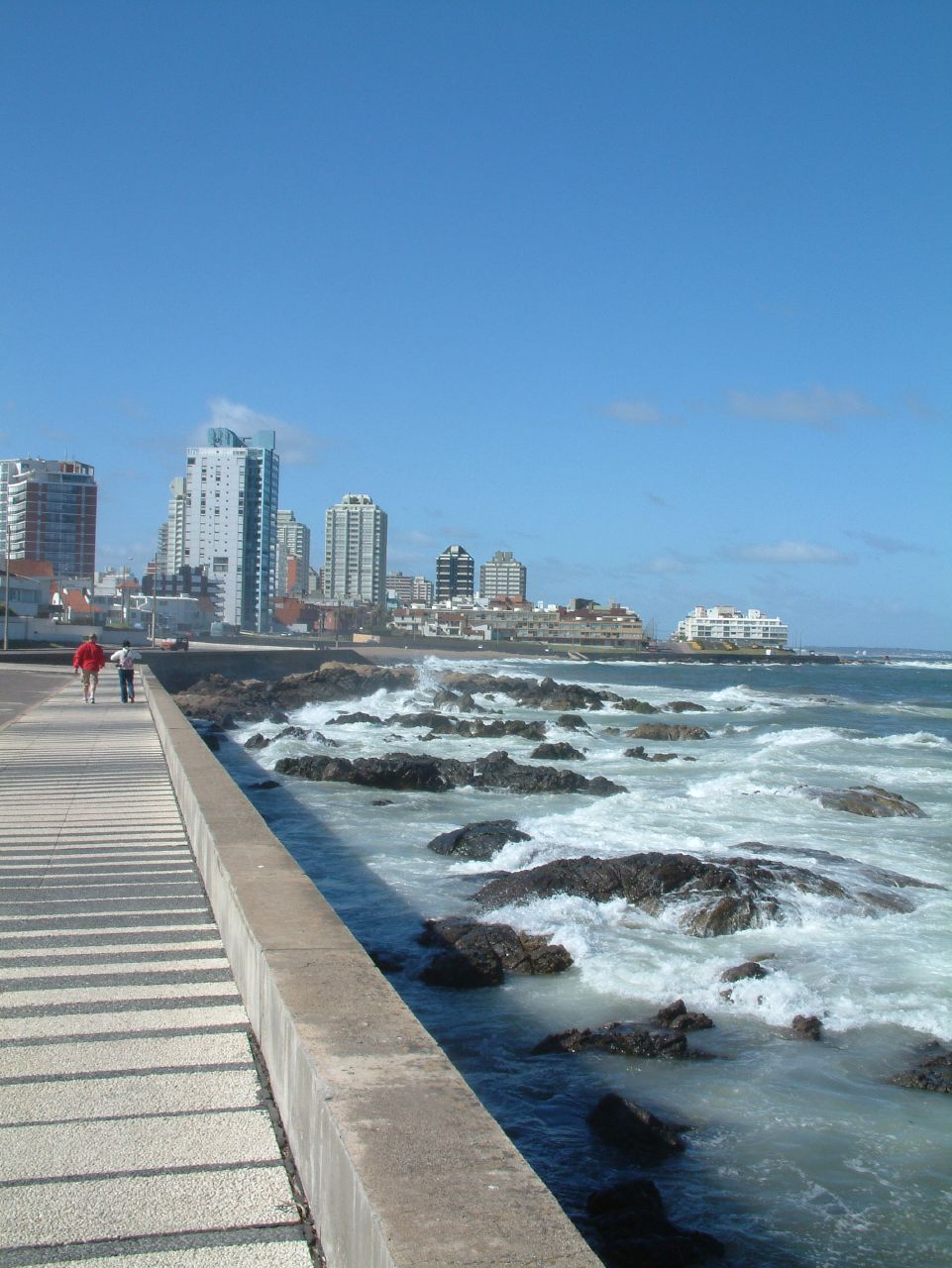 "Uruguay's Glamorous Summer Scene" (Punta del Este) Page 846 from the 1000 Places book.